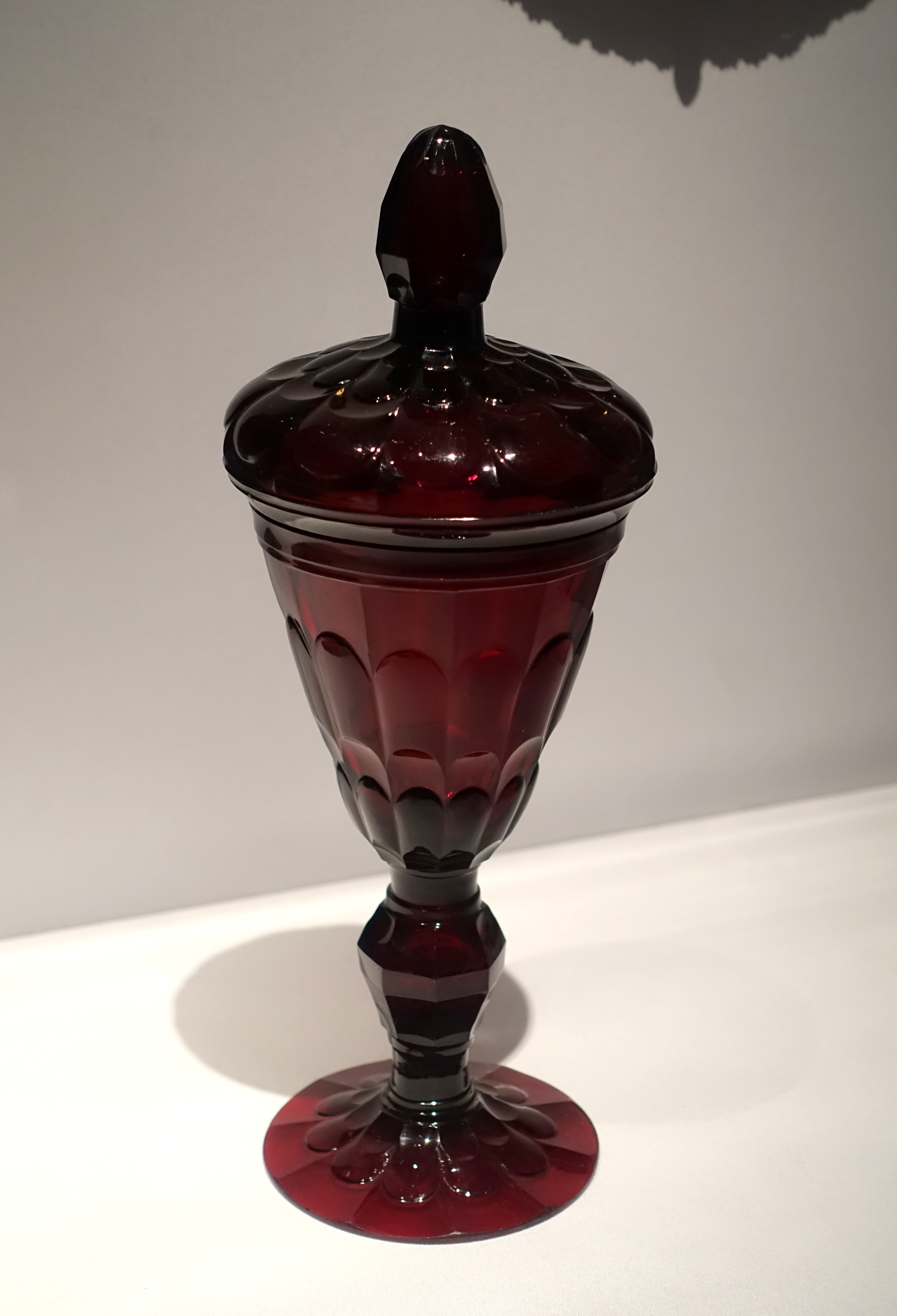 Exhibit in the Metropolitan Museum of Art - New York City, New York, USA.